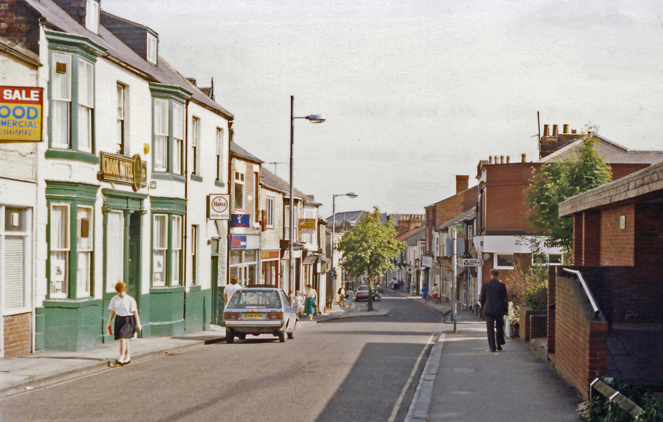 High Hope St., Crook in vicinity of former station,1988. View SE: ex-NER Bishop Auckland - Tow Law line. Crook lost its service to Tow Law from 11/6/56, to Bishop Auckland from 8/3/65, the line being abandoned from 16/9/65. [Someone else may be able to locate this scene more precisely?]